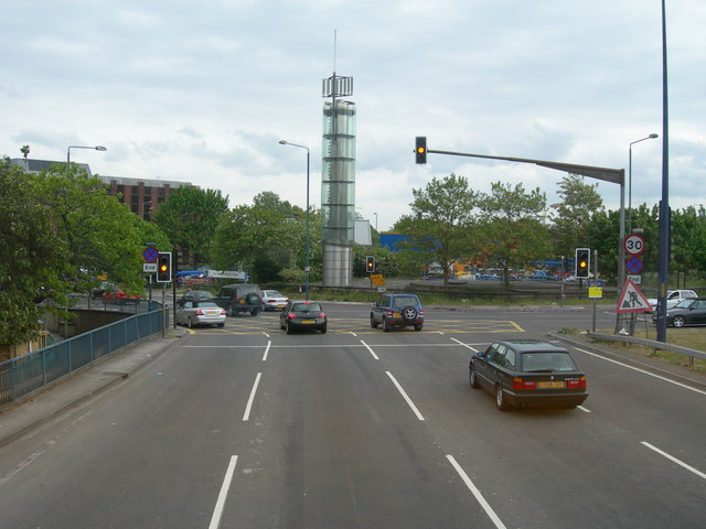 A3220 Approaching the Holland Park Roundabout Approaching the Holland Park Roundabout and heading south. Left for Holland Park, right for Shepherds Bush and ahead for Earls Court. The tower is called the Thames Water Tower. This could not usually be photographed from this angle and this range as there are no overbridges anywhere along here that a pedestrian can use, and pedestrians and cycles are not permitted on the road itself. This photo was done from the top deck of a number 220 bus which was on diversion from its normal route along Wood Lane.